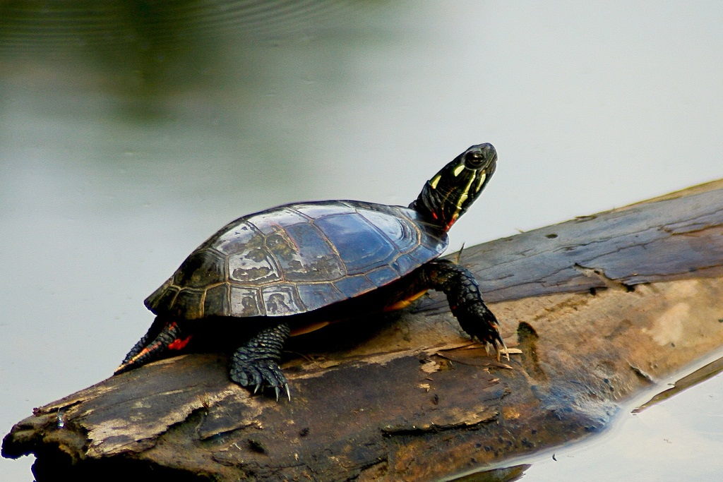 A basking painted turtle, by scute pattern and location, an eastern one.